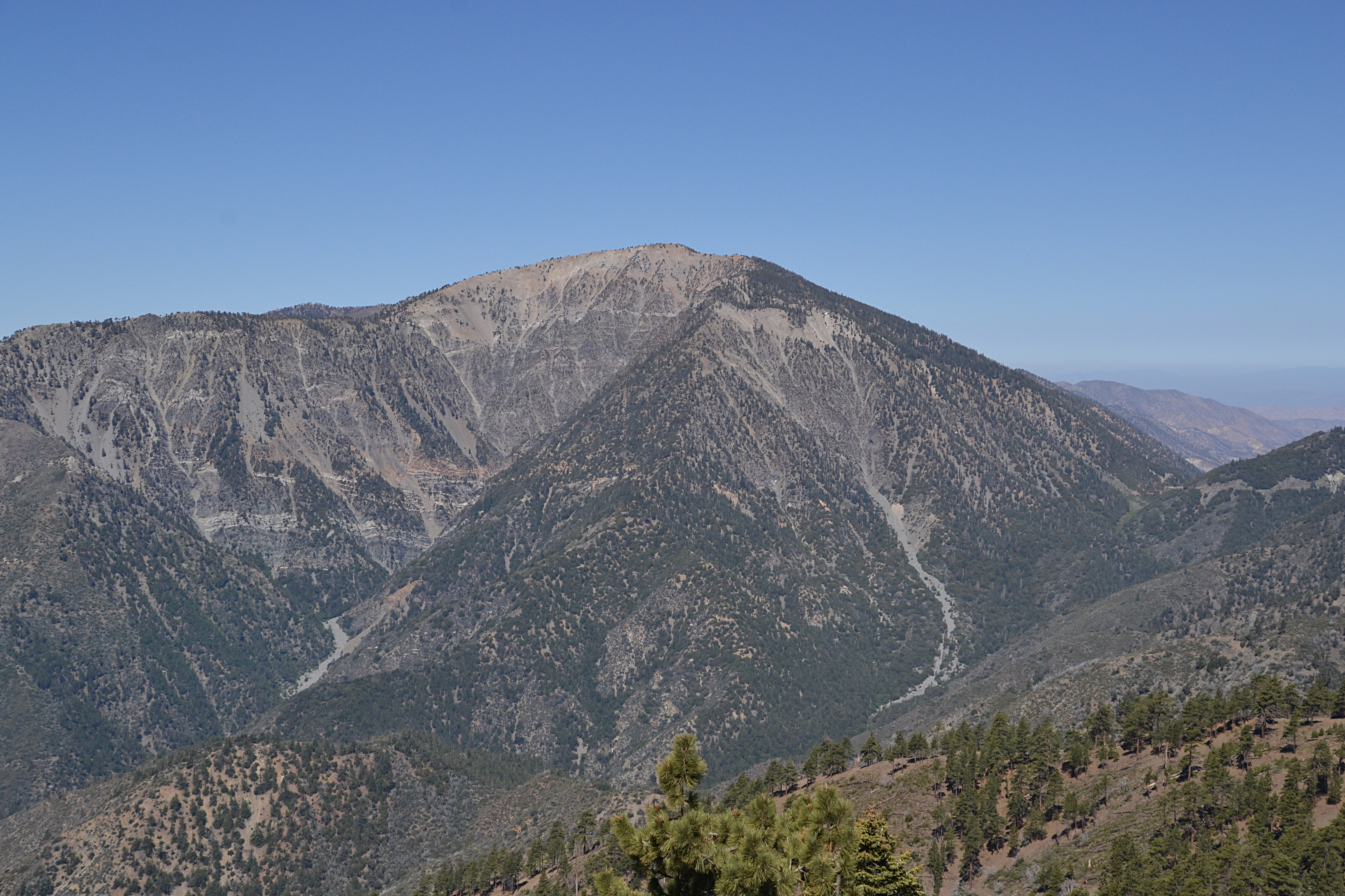 Mount Baden-Powell on a clear day as seen from Blue Ridge. San Gabriel Mountains, Los Angeles County, California.